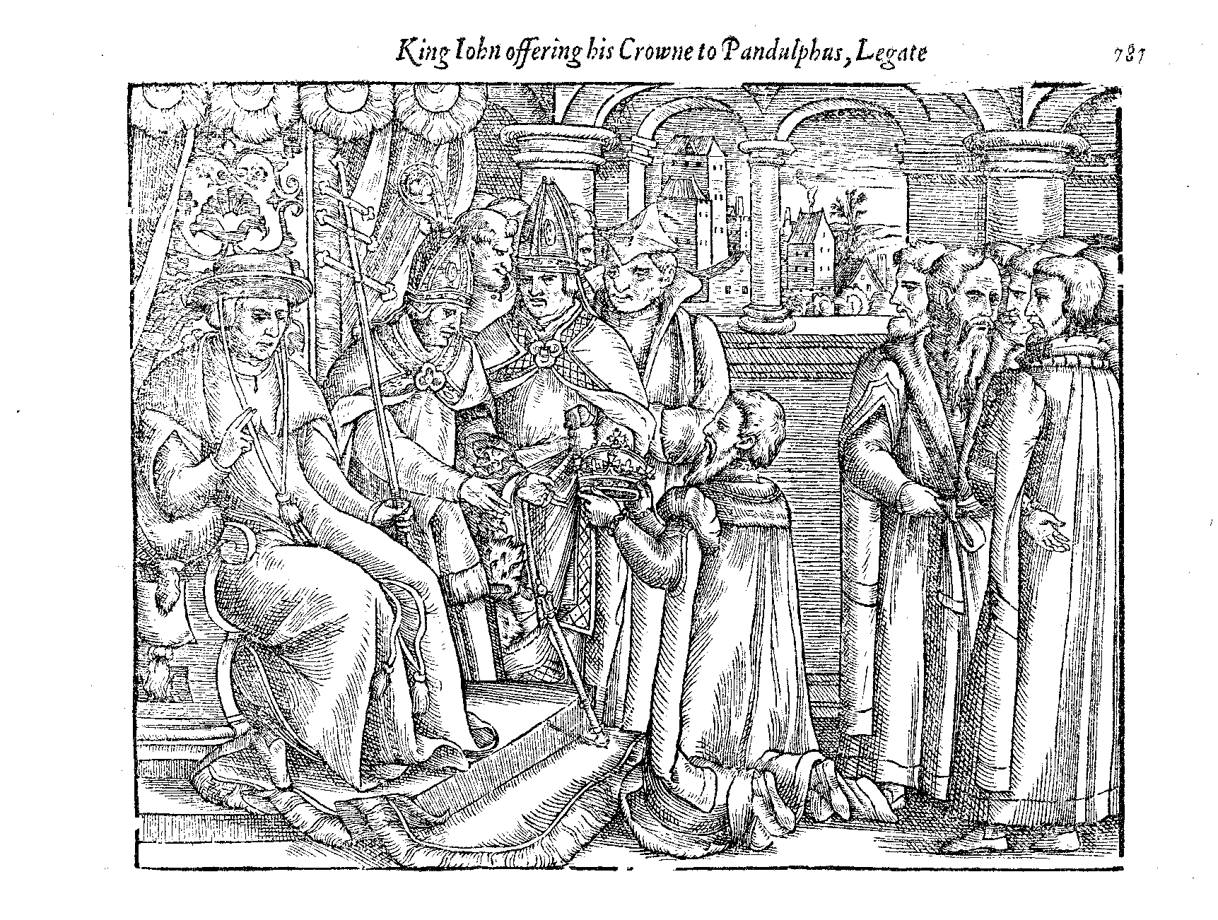 King John of England offering his Corwn to Pandulph Masca, papal legate to England.